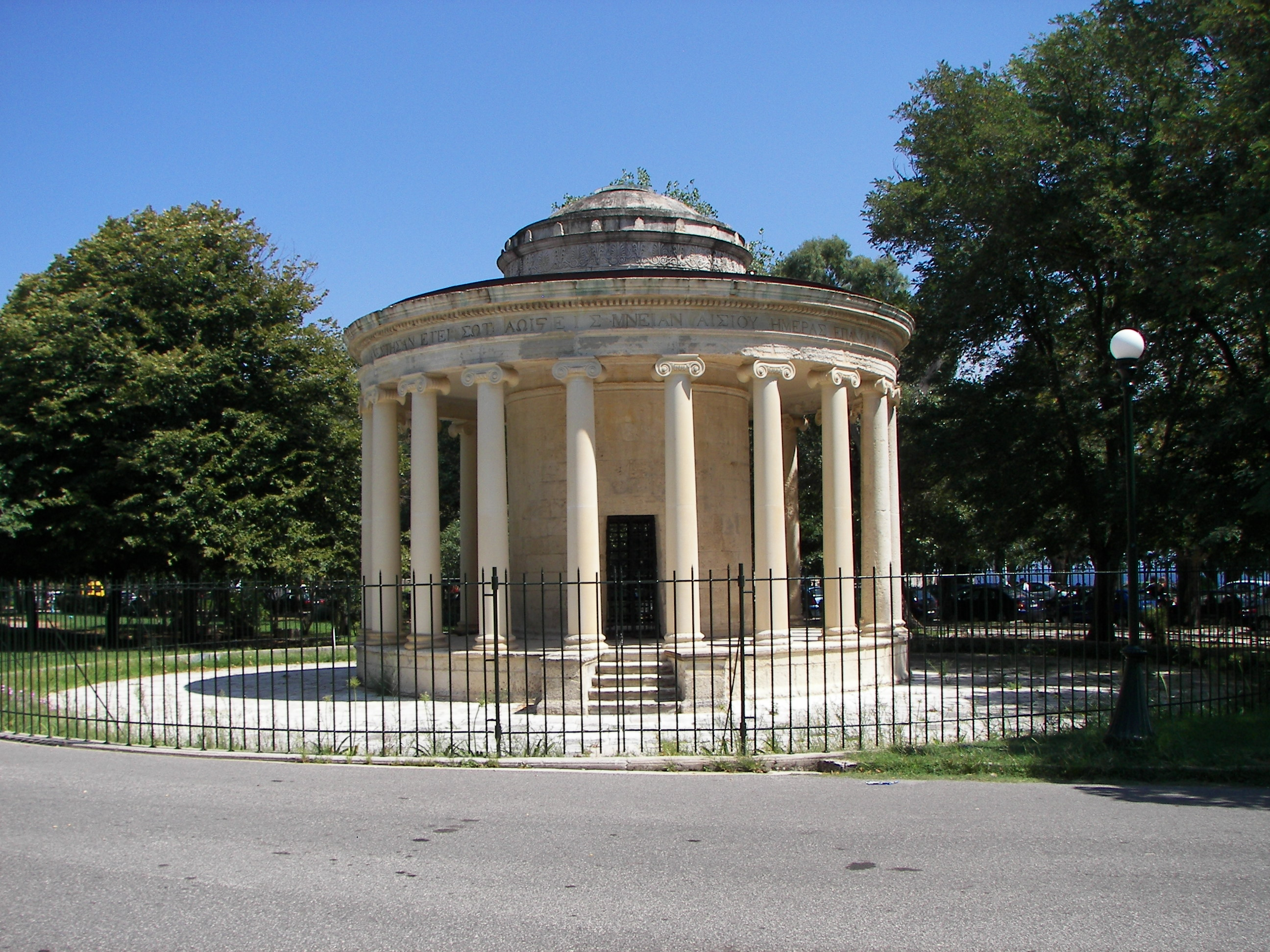 I am the author. Dr.K. 23:23, 8 September 2006 (UTC)